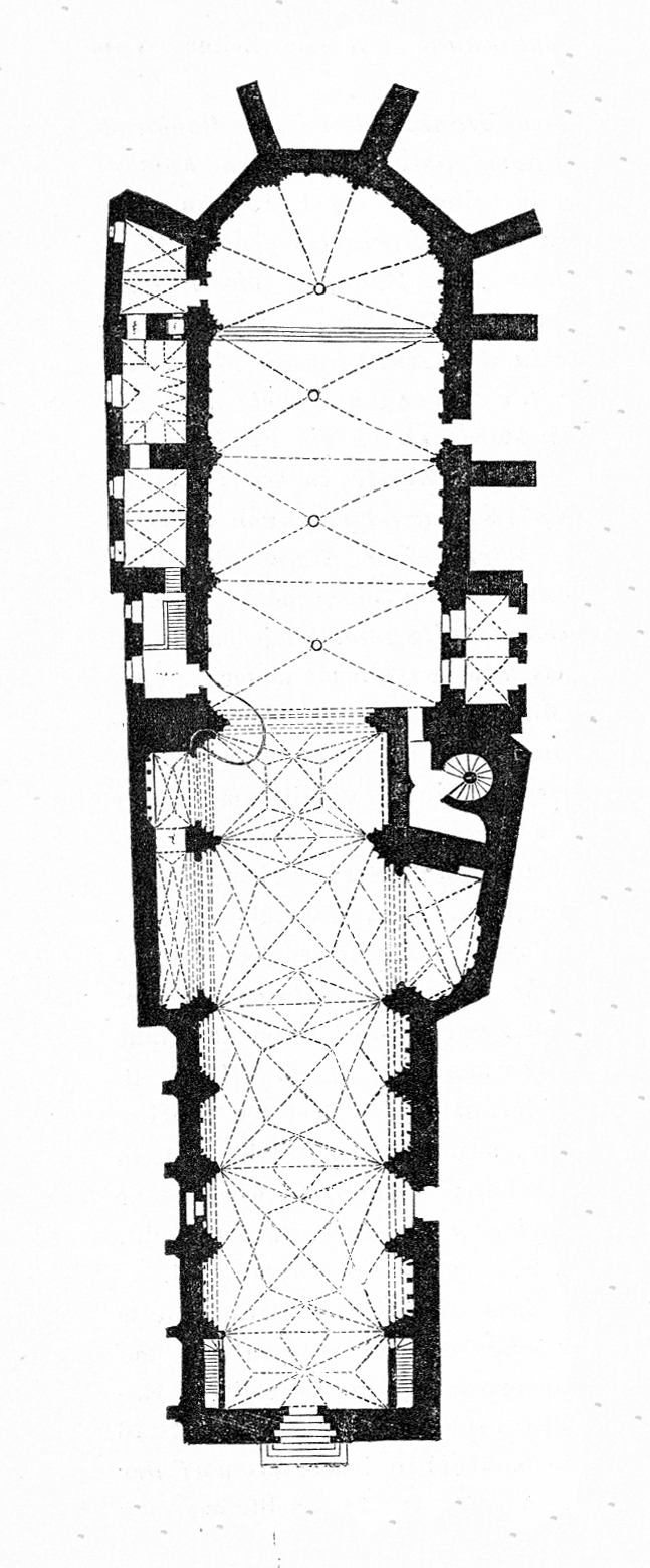 Bilder (Holzschnitte) aus dem in derselben Kategorie befindlichen Artikel aus den Mittheilungen der kaiserl. königl. Central-Commission zur Erforschung und Erhaltung der Baudenkmale Band 2, 1857. Scanprojekt Bundesdenkmalamt Österreich This scan or this PDF-file was created within the Austrian Wikipedia-project Denkmalpflege Österreich (German only) supported by Wikimedia Germany and Wikimedia Austria as part of the Wikipedia community-project to collect public domain documents from the library of the Heritage Monuments Board of Austria. This document describes or depicts an object which is located in Austria today. Send requests for uncompressed scans to Hubertl. This work is in the public domain in its country of origin and other countries and areas where the copyright term is the author's life plus 100 years or fewer. You must also include a United States public domain tag to indicate why this work is in the public domain in the United States. This file has been identified as being free of known restrictions under copyright law, including all related and neighboring rights.